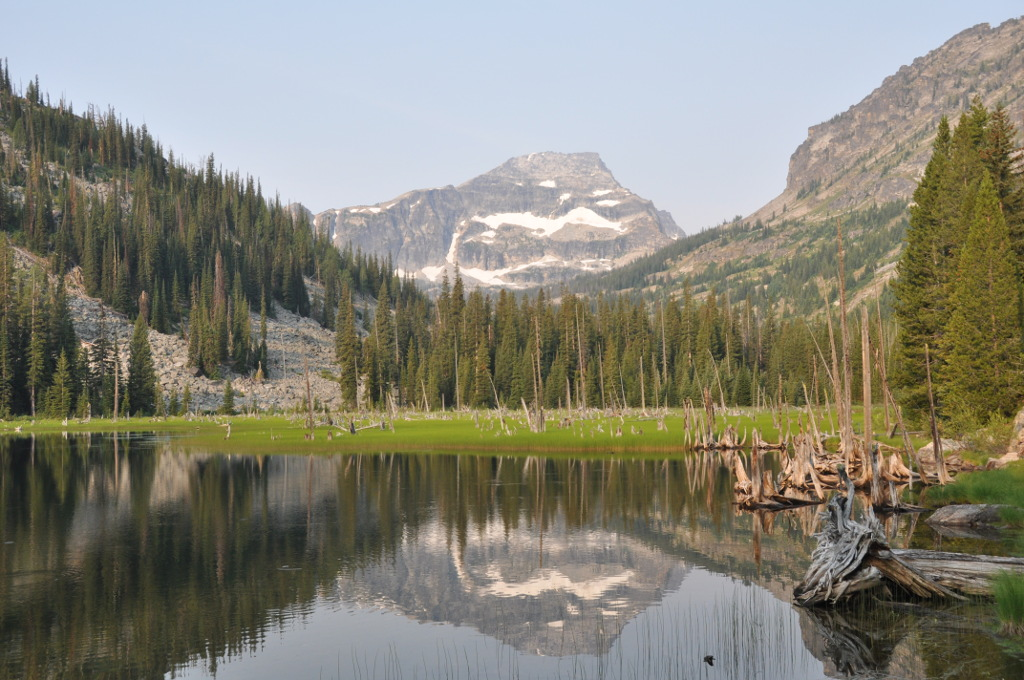 Little Rock Creek Lake, with El Capitan in the distance, in the Bitterroot Range, Montana.